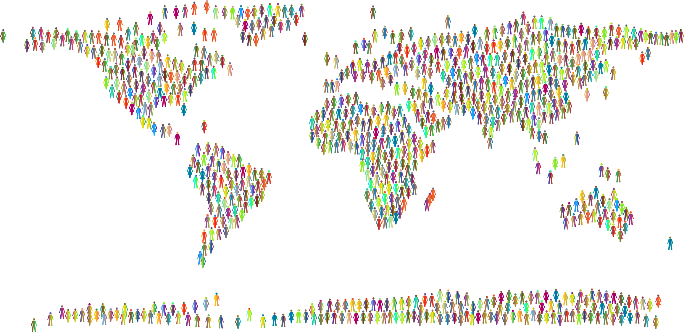 People around the globe, representing equality across the earth.